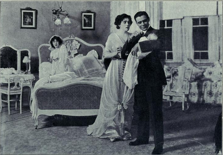 Scene from 1910 Broadway play "Baby Mine" appearing in The Stage Year Book (1911). Photo shows Marguerite Clark, Ivy Troutman, and Ernest Glendenning.